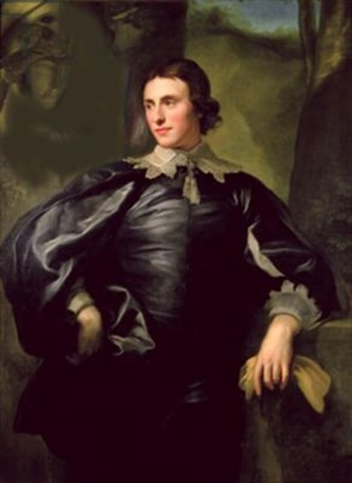 Charles Lennox, 3rd Duke of Richmond (1735-1806)